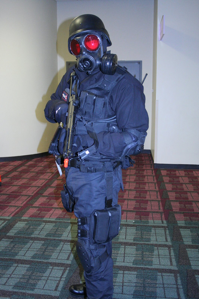 Cosplay of Resident Evil.